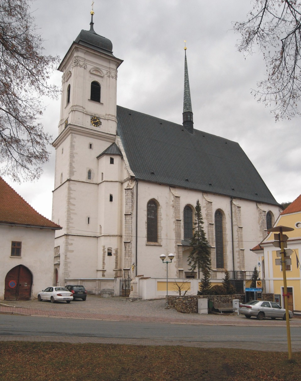 Doubravník, church of holy cross (1535-1557) (Czech Republic)